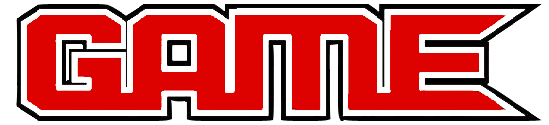 Transparent Game Logo